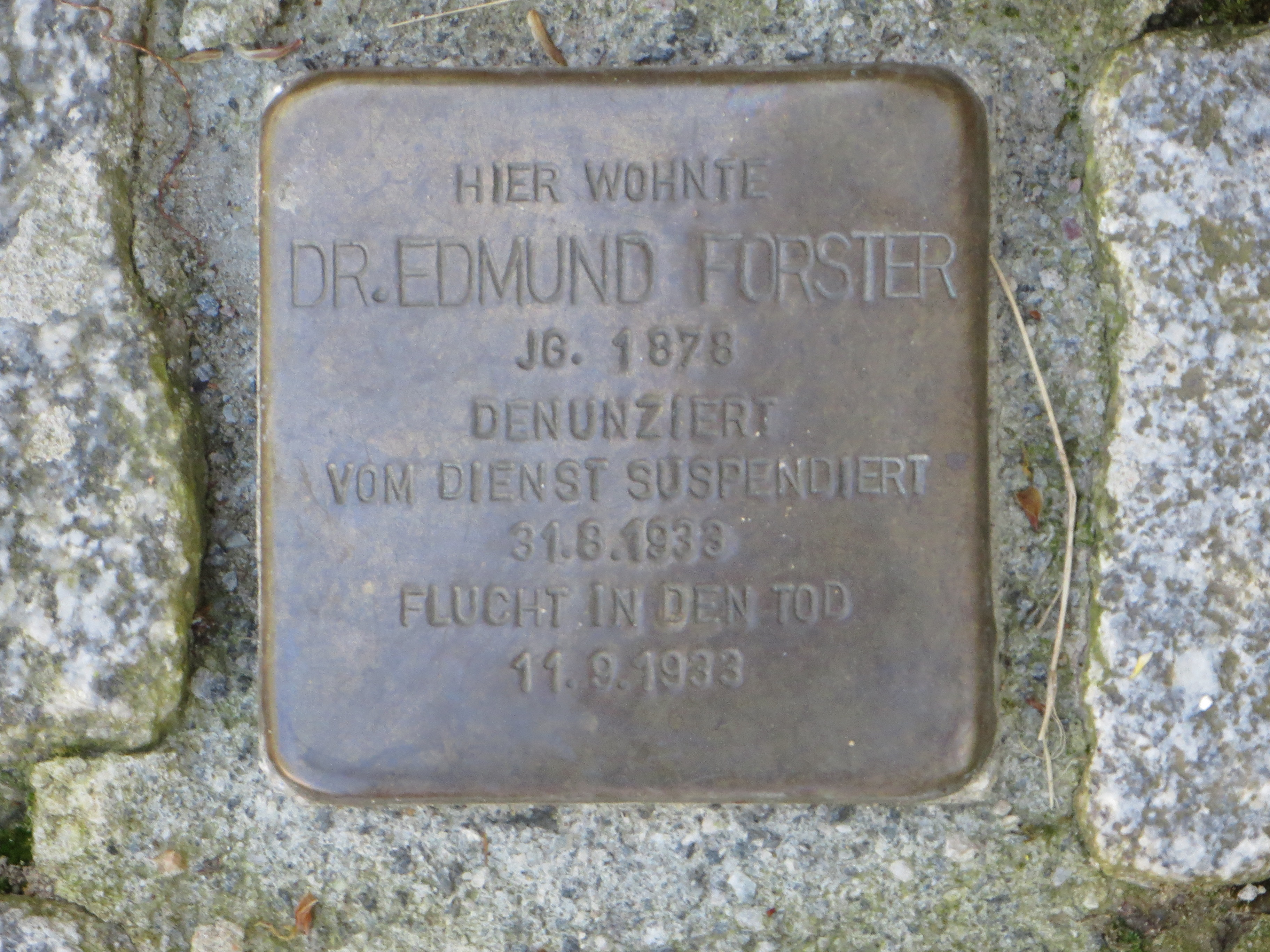 Stolperstein for de;Edmund Forster in front of Ellenholzstr. 2 in Greifswald